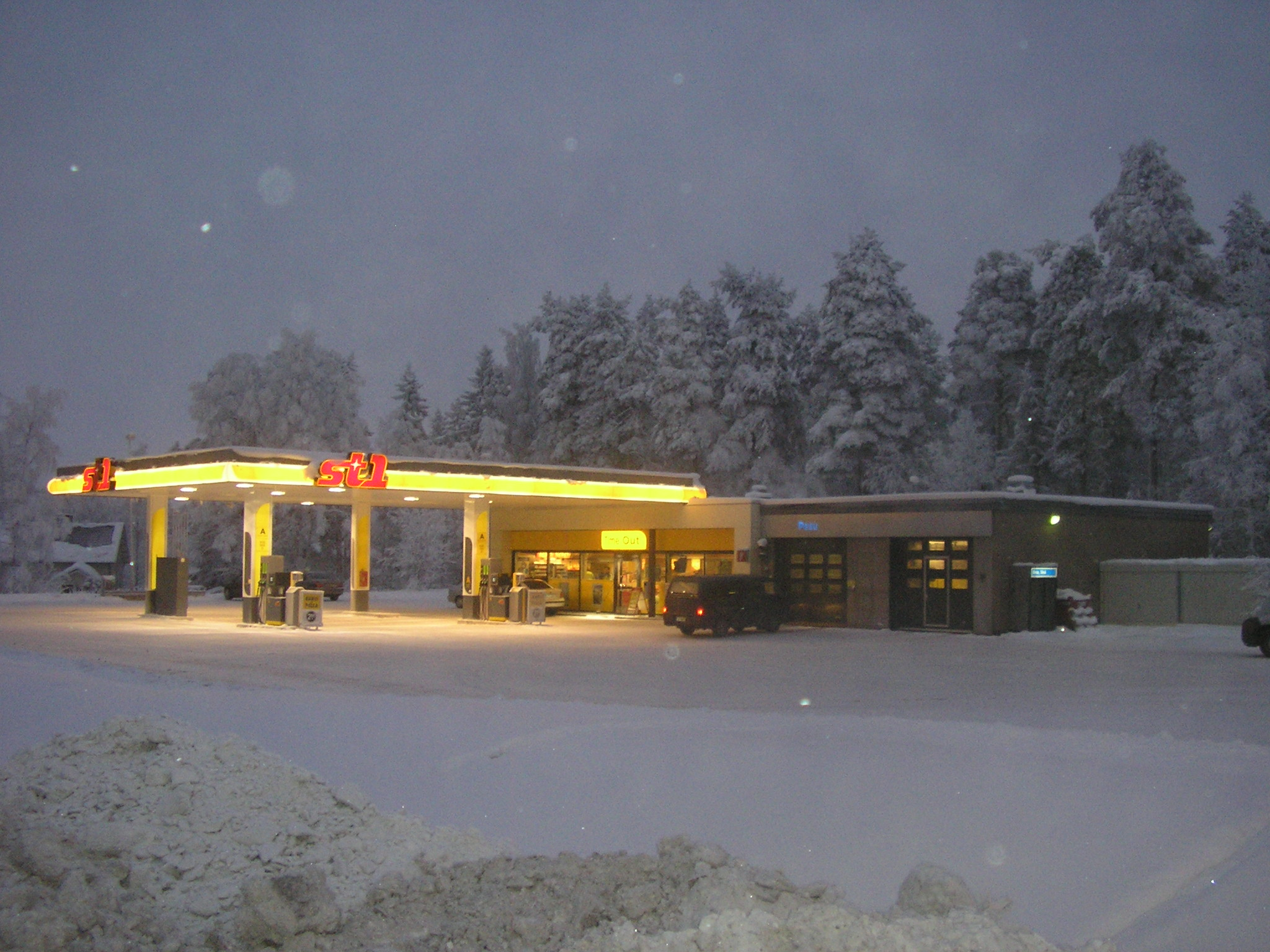 St1 petrol station in Kajaani, Finland